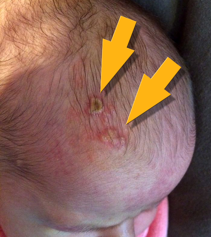 1 Lesions (bouquets of vesicles) resulting from the mucocutaneous form of neonatal herpes (here on the scalp of a newborn, nine days after birth, which was by natural ways, with the help of forceps).